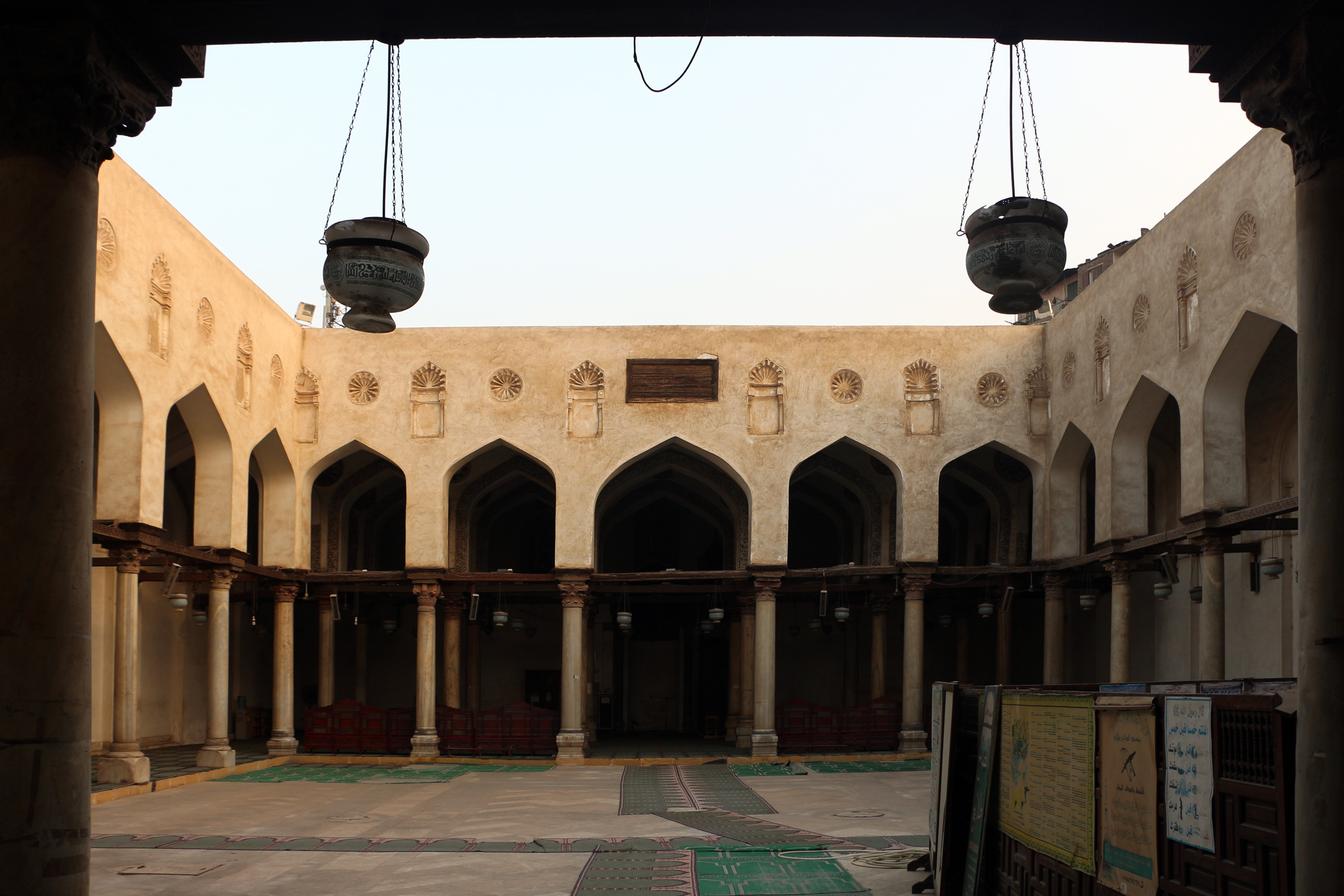 Al-Salih Tala'i Mosque